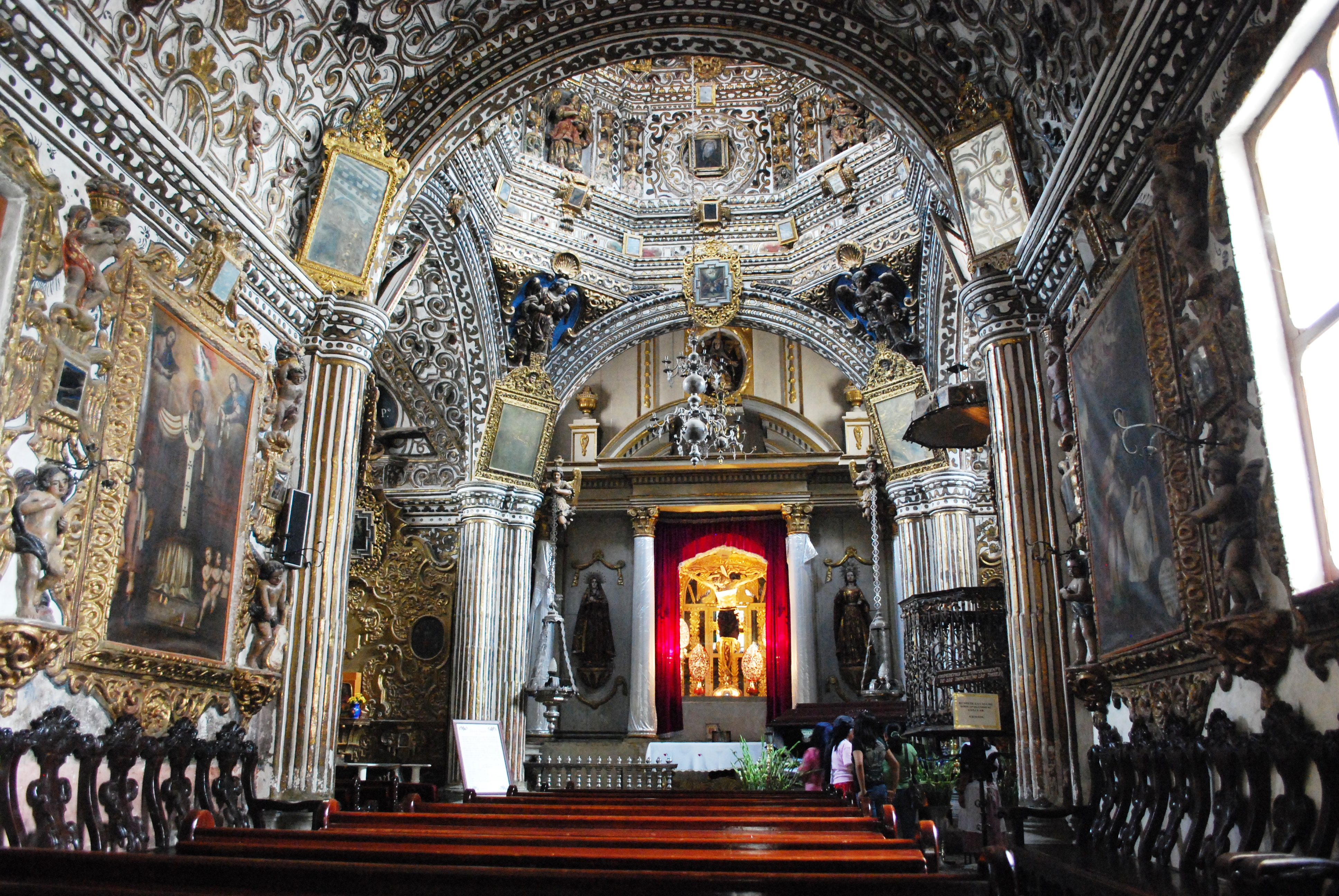 Main altar area of the Chapel of Señor de Tlacolula in the Church of Asuncion de Nuestra Señora in Tlacolula, Oaxaca, Mexico